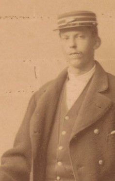 Bas Veth. Cut out from a group photograph of members of the Rowing and Sailing Association Dordrecht.